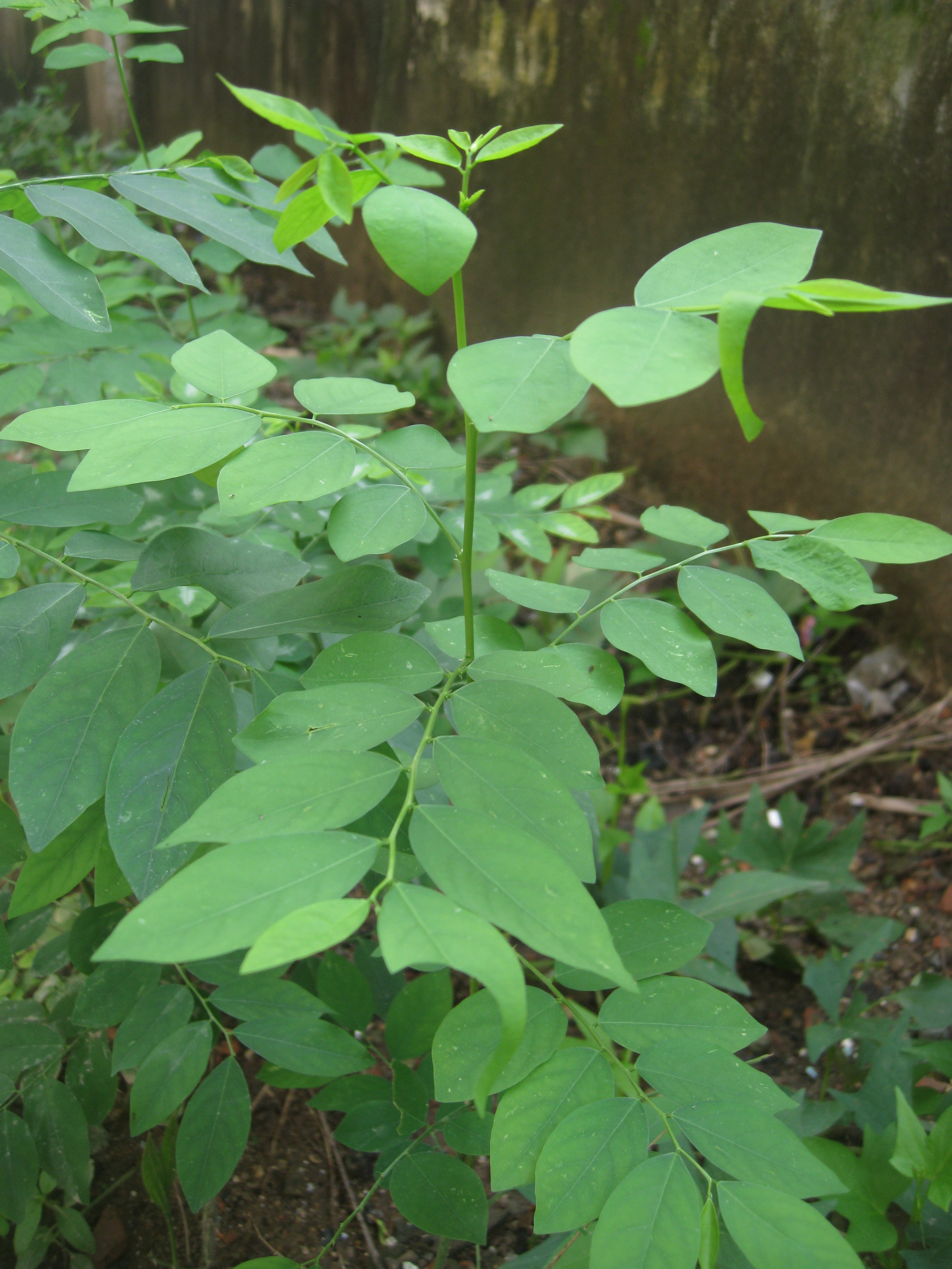 Sauropus androgynus.